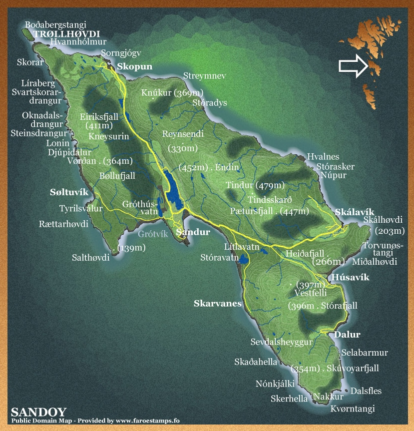 Sandoy, Faroe Islands